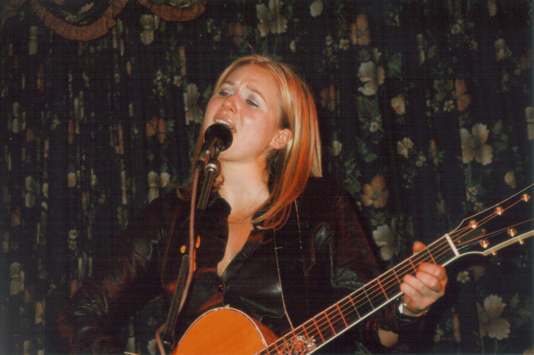 Jewel performing at the Irish Centre, Birmingham, October 15, 1997